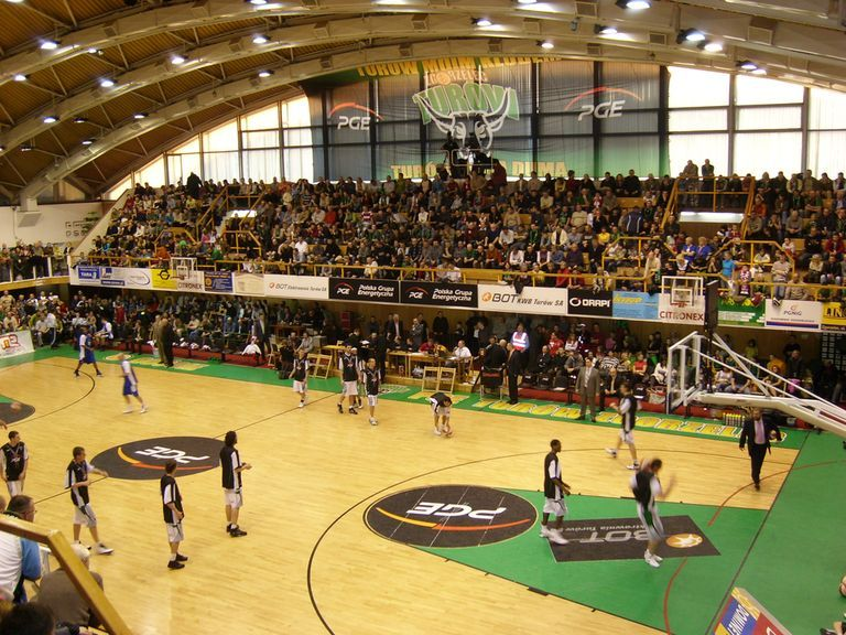 Court of "Centrum Sportowe" in Zgorzelec during game of PGE Turów Zgorzelec in Dominet Bank Ekstraliga (March 2008)